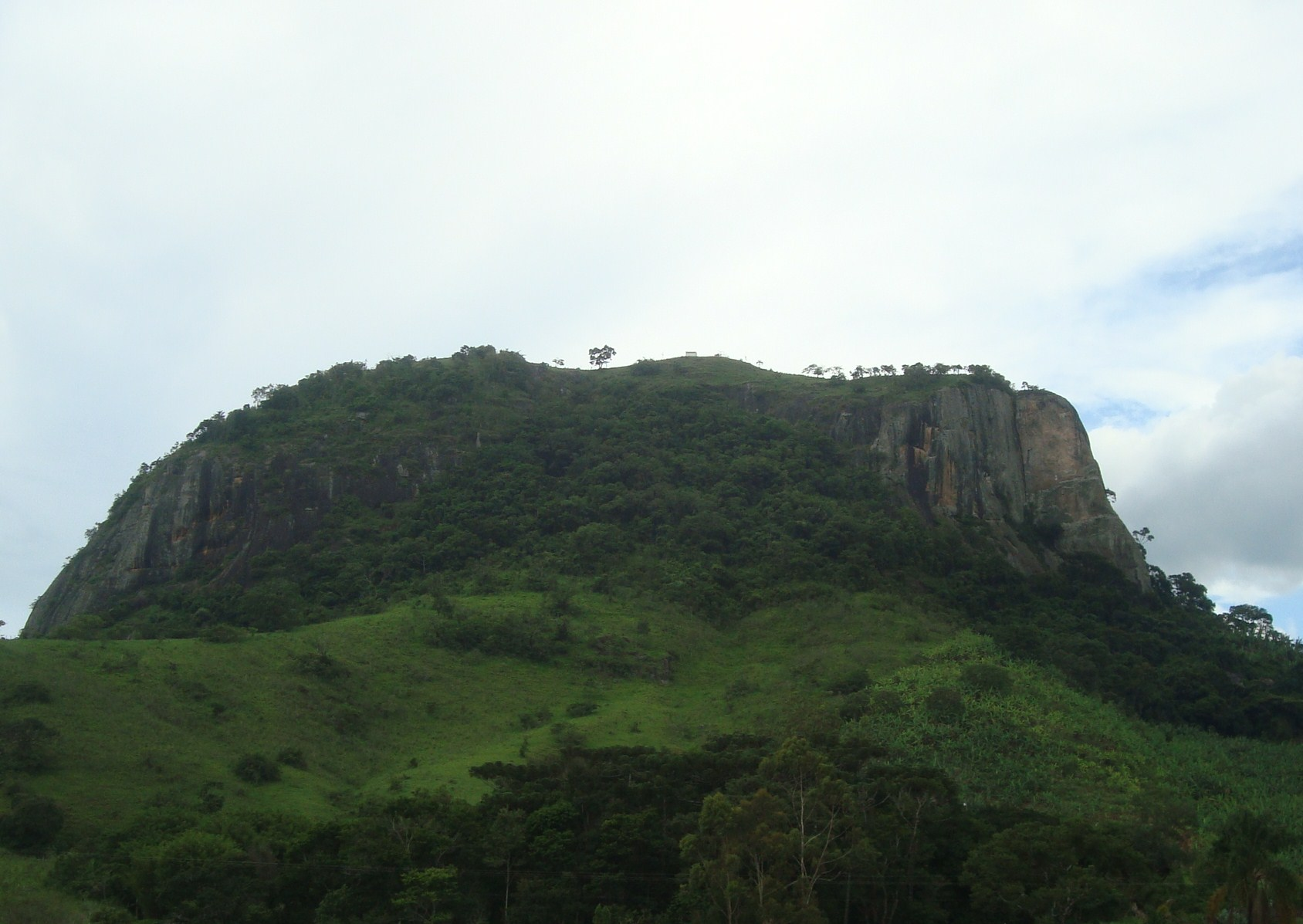 Calvary Mountain in Gonçalves, Minas Gerais, Brazil